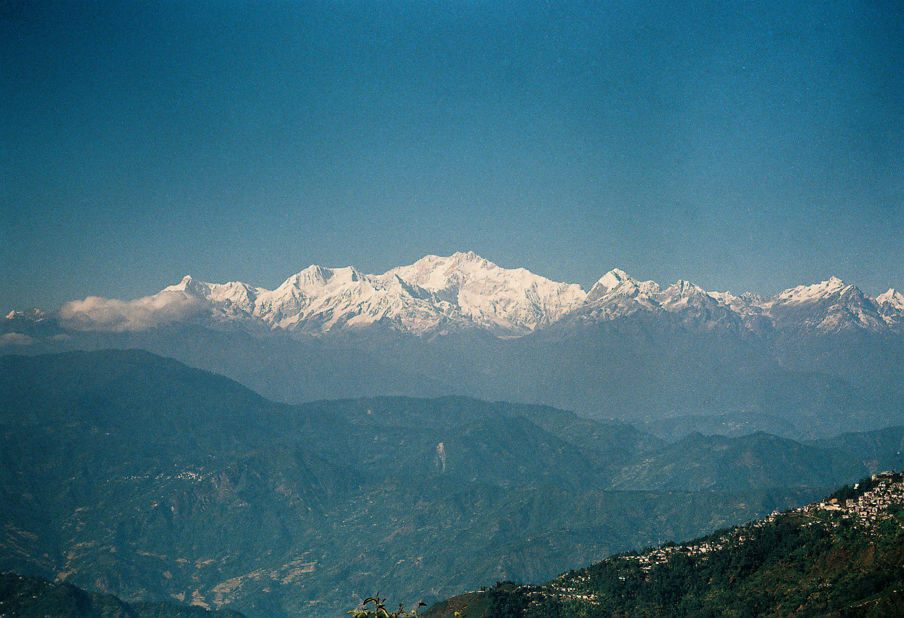 I had taken this photo of Mt. Kanchenjunga or Kanchenzdonga with my manual camera. Its a view of Mt. Kanchenjunga as seen from Darjeeling town with visible Darjeeling Tea gardens. Mt. Kanchenjunga is the world's third highest peak with an elevation of 8,586 m. Enjoy the photo, use it, but don't forget to credit it!